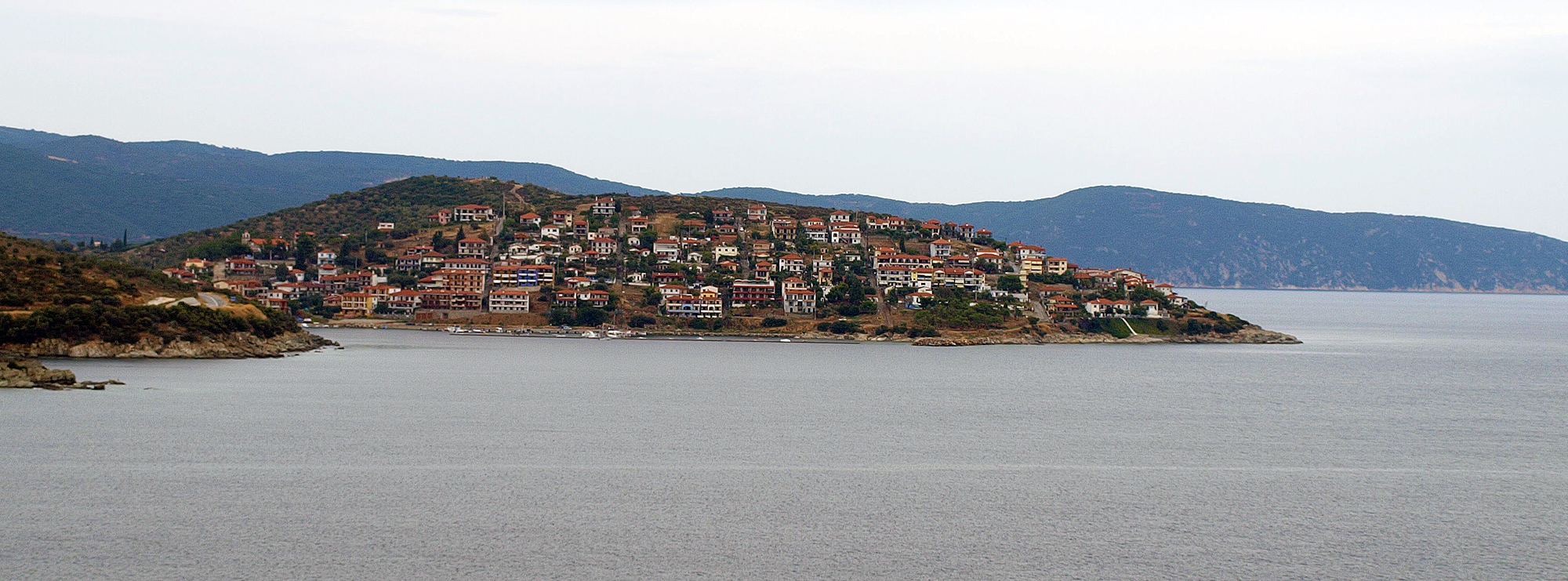 Panoramic view of Pirgadika, Halkidiki, Greece